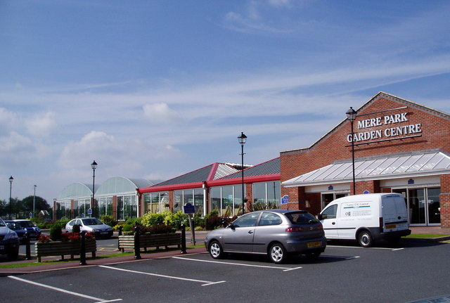 Mere Park Garden Centre, Stafford Road, Newport, Telford and Wrekin.